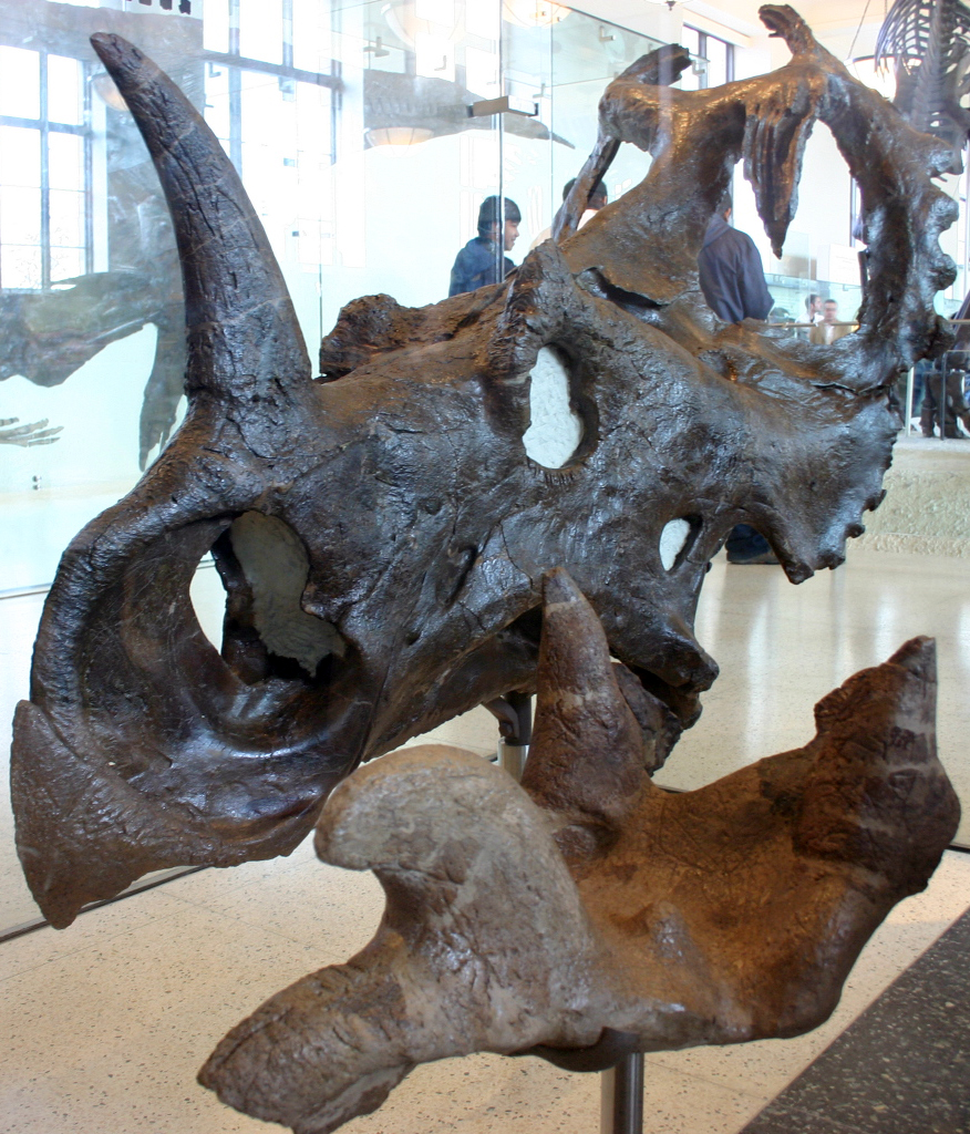 Skull assigned to Centrosaurus apertus (specimen AMNH 5427, holotype of Monoclonius flexus). Monoclonius recurvicornis holotype in the foreground. Visit my blog at